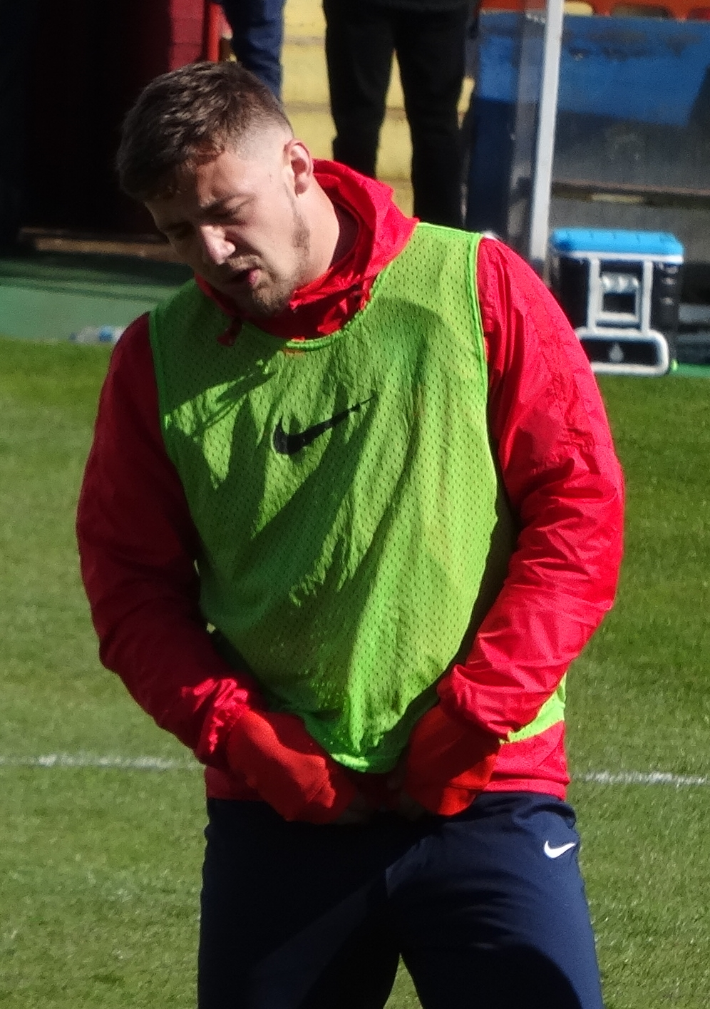 George Swan training with York City during half-time against Bristol Rovers at Bootham Crescent, York on 30 April 2016